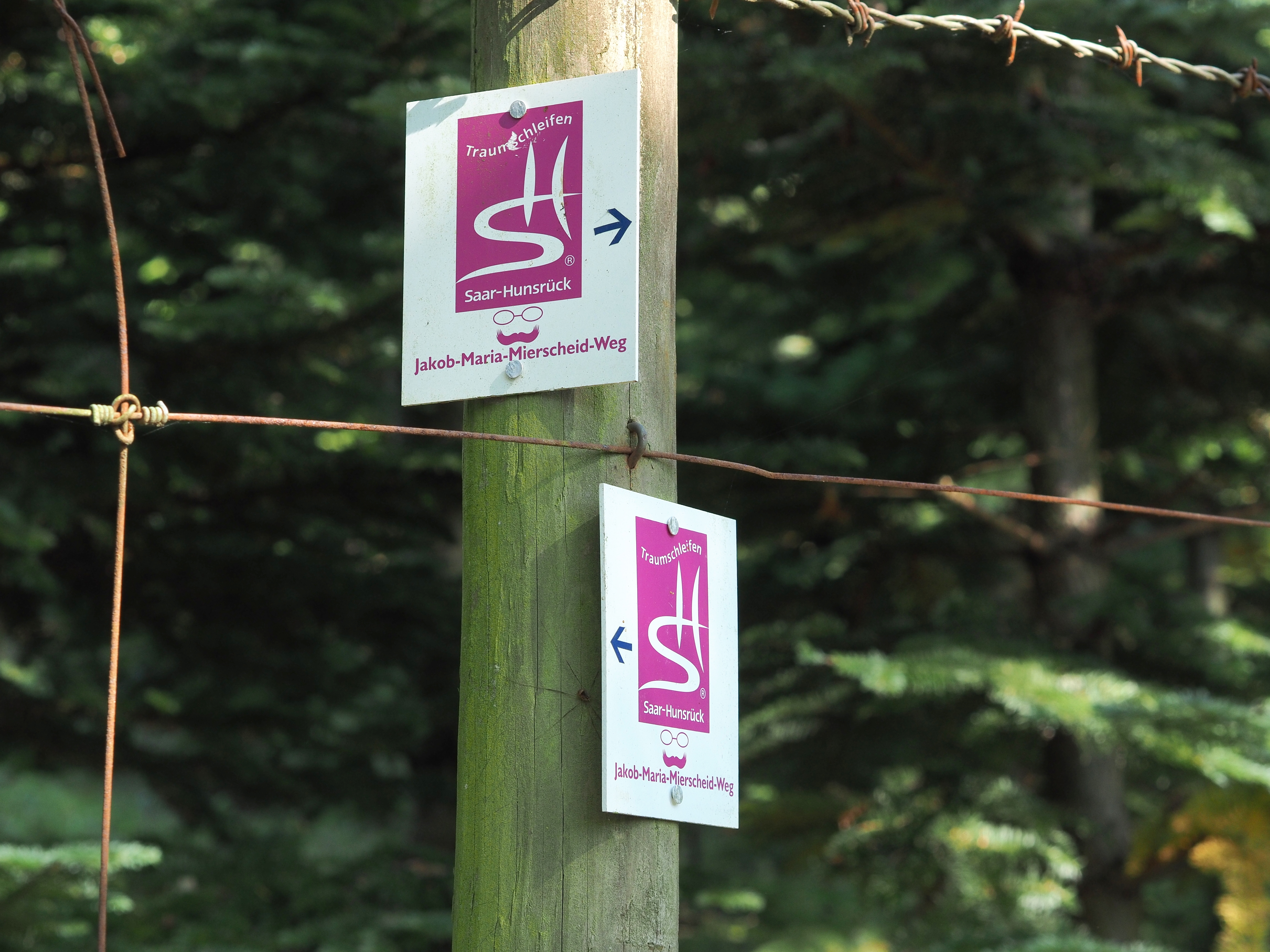 Marking of Jakob Maria Mierscheid Trail